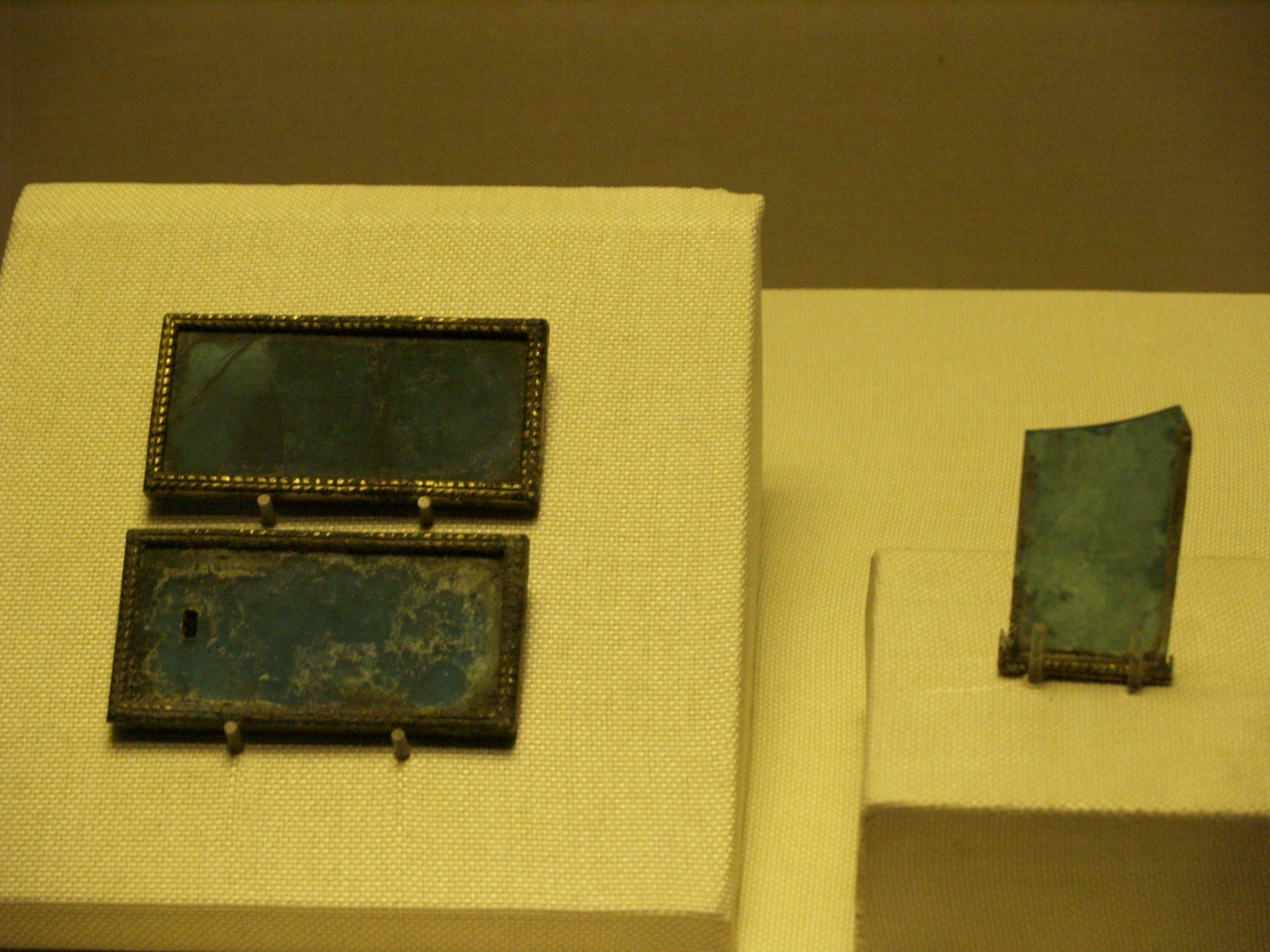 Flat blue glass excavated from the Mausoleum of the Nanyue King, Guangzhou. Exhibit info: "This is the earliest produced flat blue glass ever found in China. The glass contained 33 percent lead and 12 percent barium. Judging from the components, which are quite different from glass made in Egypt, we know they were natively produced in China."